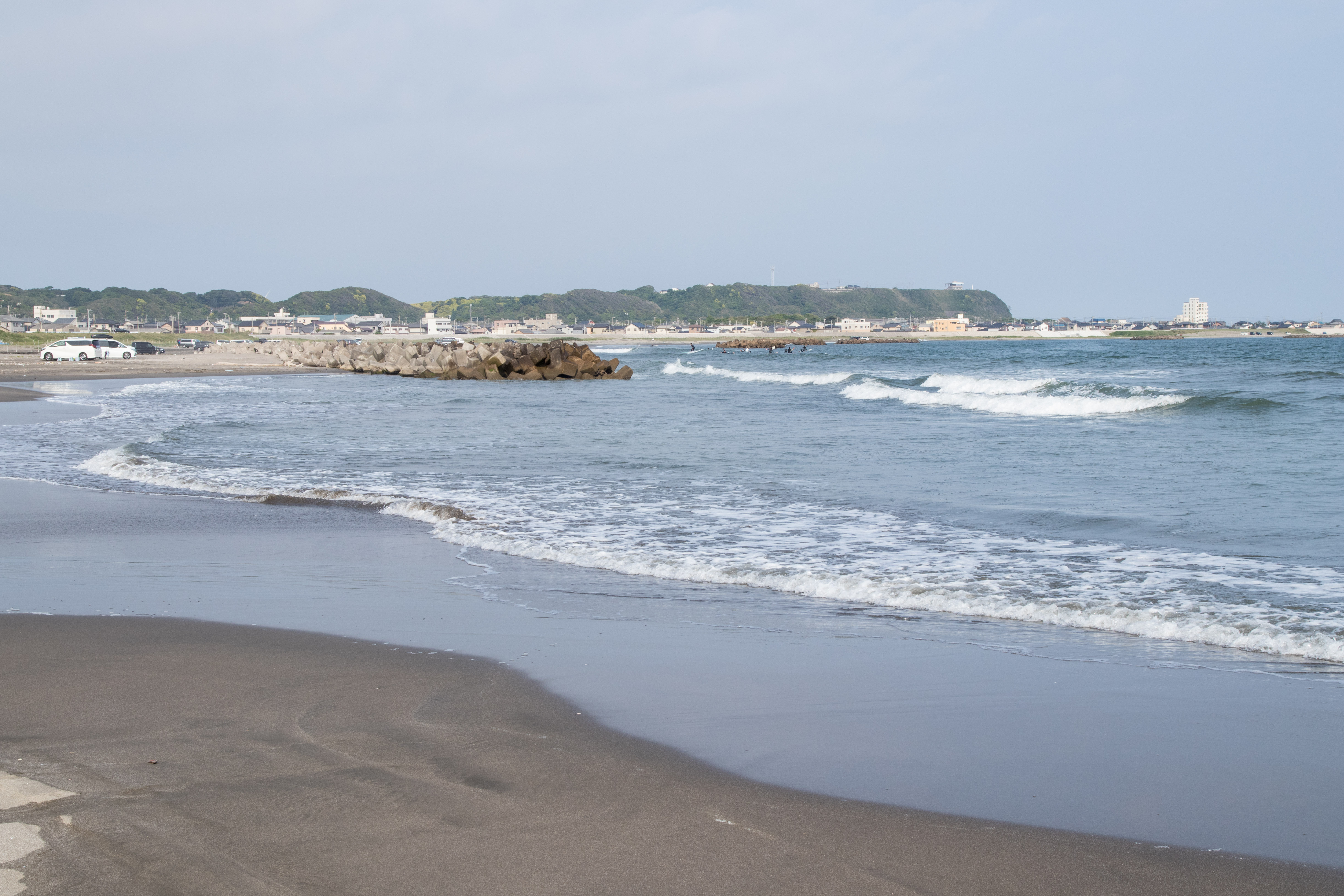 Īoka Beach, Asahi City, Chiba, Japan.